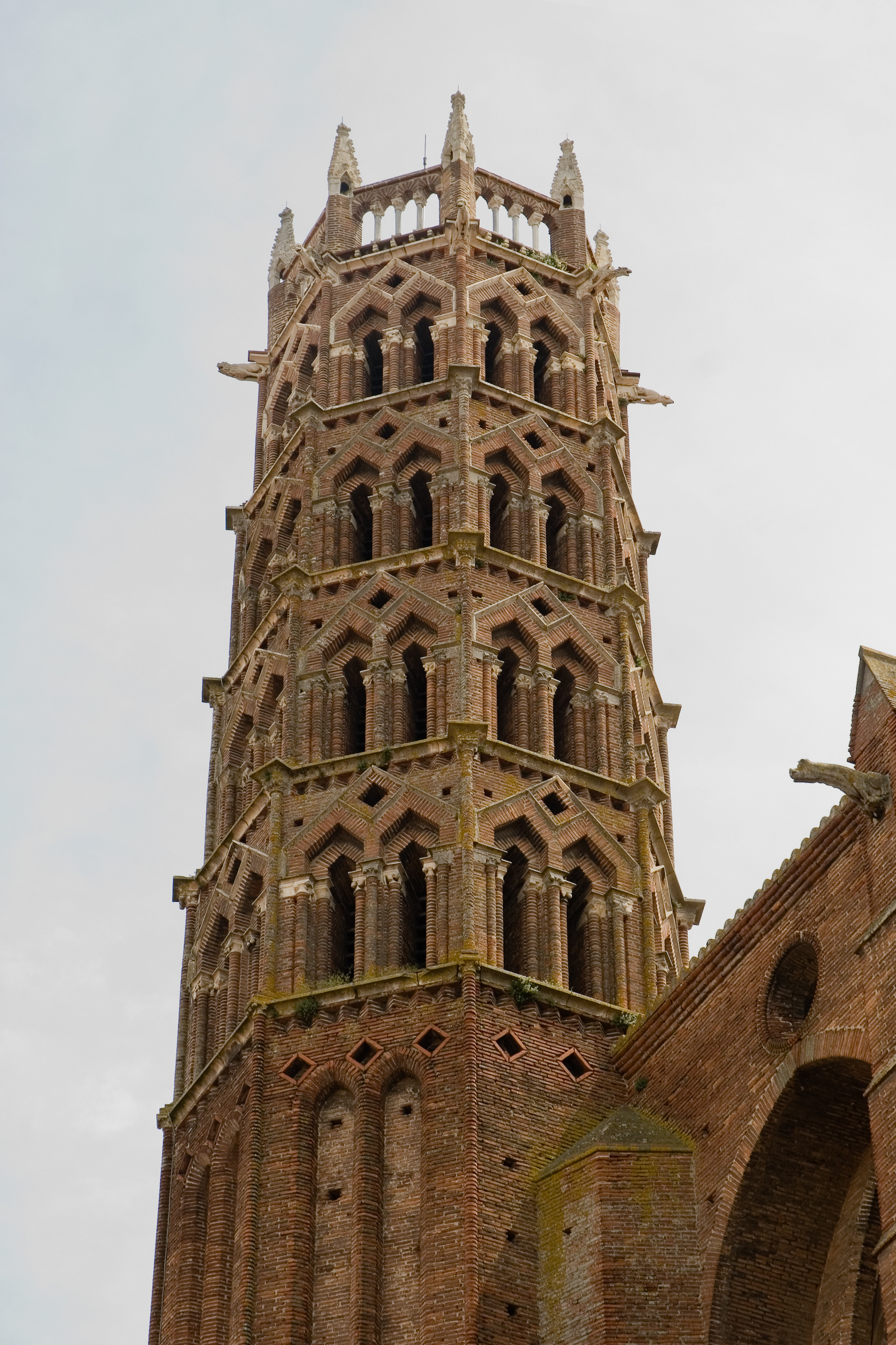 Jacobins tower from the cloister (Toulouse, France)